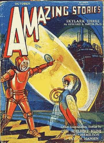 Cover of the pulp magazine Amazing Stories (October 1930, vol. 5, no. 7) featuring "Skylark Three" by Edward E. Smith, PhD.